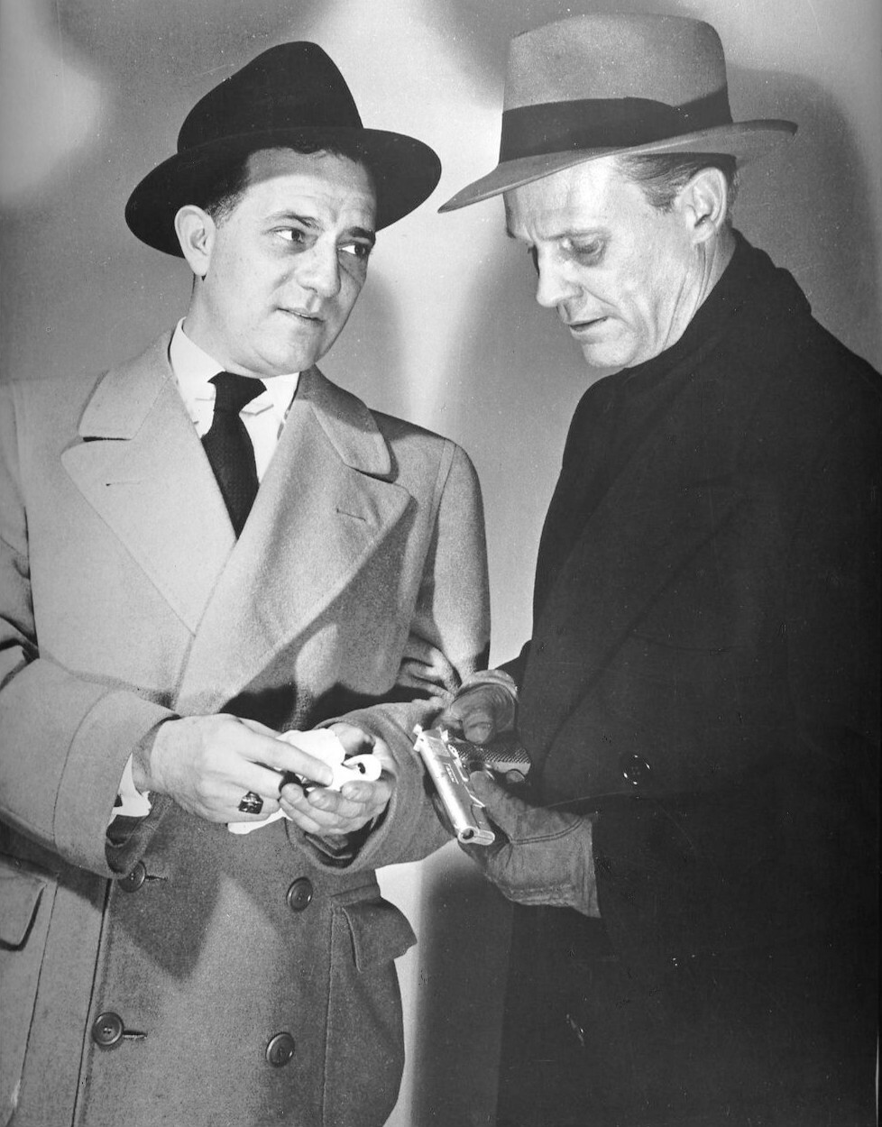 Photo of Mendell Kramer (left) and Don McLaughlin from the short-lived television program Counterspy. The actors shown here played these roles in the radio version also. While the radio program aired for many years-first on the NBC Blue Network and then moving to ABC after the Blue Network was sold to them in 1942.